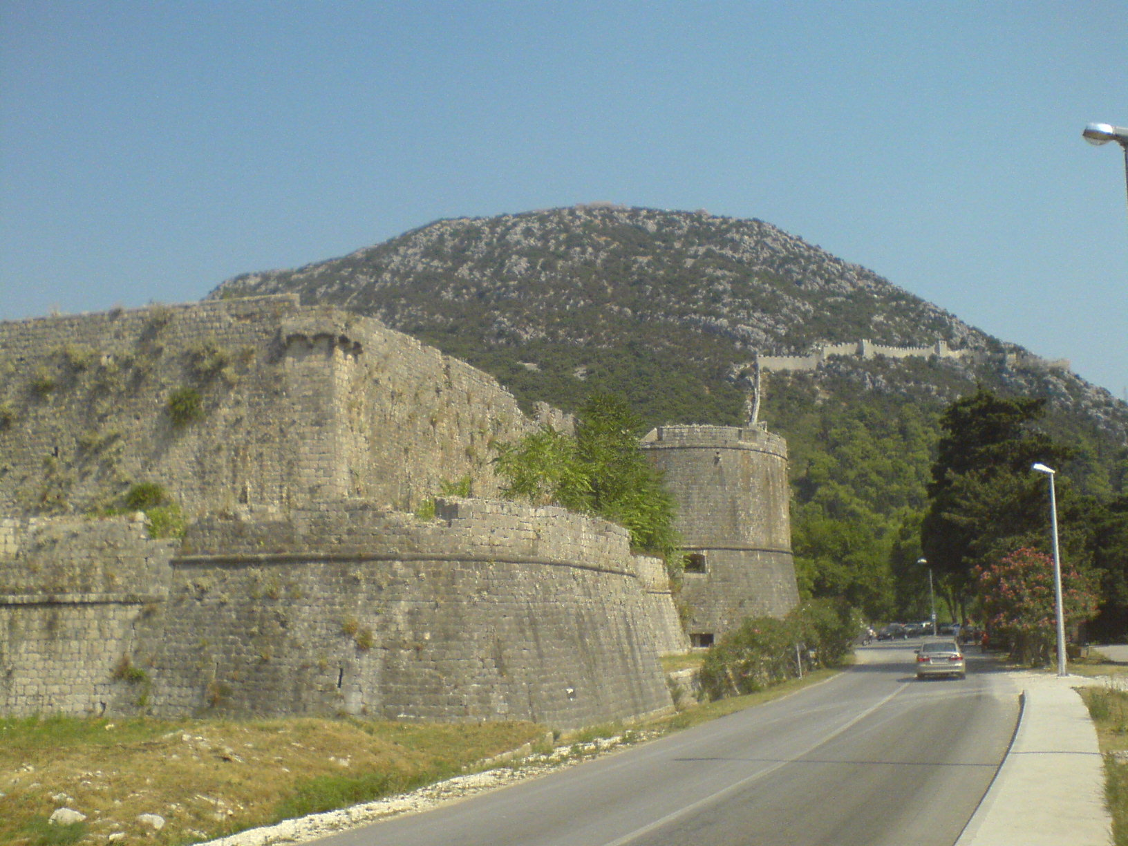 STON CITY WALS